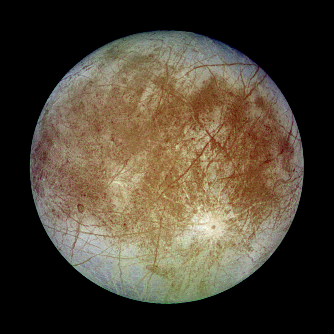 This image shows a view of the trailing hemisphere of Jupiter's ice-covered satellite, Europa, in approximate natural color. Long, dark lines are fractures in the crust, some of which are more than 3,000 kilometers (1,850 miles) long. The bright feature containing a central dark spot in the lower third of the image is a young impact crater some 50 kilometers (31 miles) in diameter. This crater has been provisionally named "Pwyll" for the Celtic god of the underworld. Europa is about 3,160 kilometers (1,950 miles) in diameter, or about the size of Earth's moon. This image was taken on September 7, 1996, at a range of 677,000 kilometers (417,900 miles) by the solid state imaging television camera onboard the Galileo spacecraft during its second orbit around Jupiter. The image was processed by Deutsche Forschungsanstalt fuer Luftund Raumfahrt e.V., Berlin, Germany.